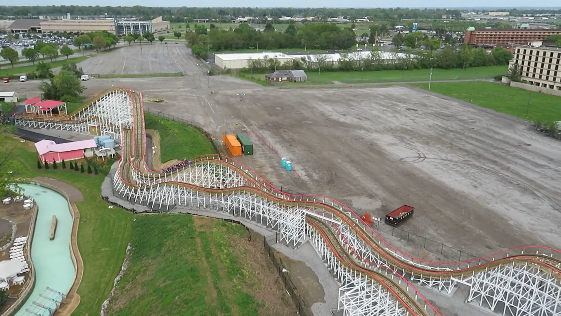 A photo of Kentucky Flyer at Kentucky Kingdom in Louisville, Kentucky. Published on May 2, 2019 by OhioValleyCoasters. Kentucky Flyer opened at the Kentucky Kingdom amusement park in April 2019.